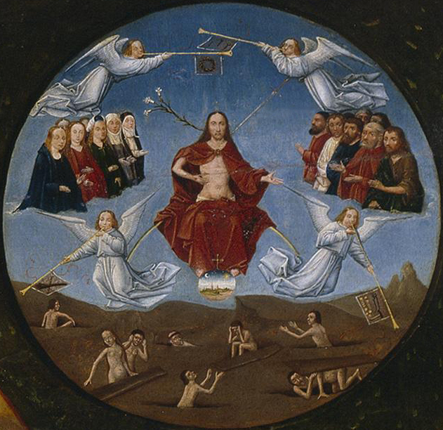 Table of the Mortal Sins [detail: Last Judgment].